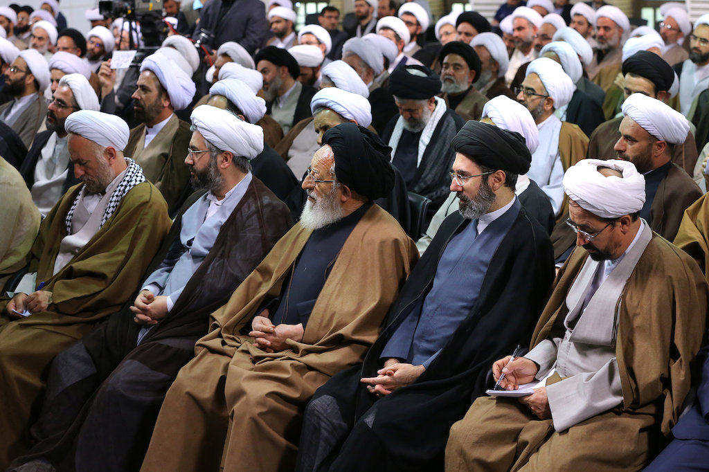 Qom Seminary's students met Ali Khamenei on 15 March 2016.